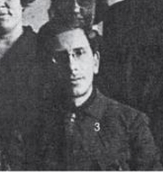 Amayak Nazaretyan in 1924.